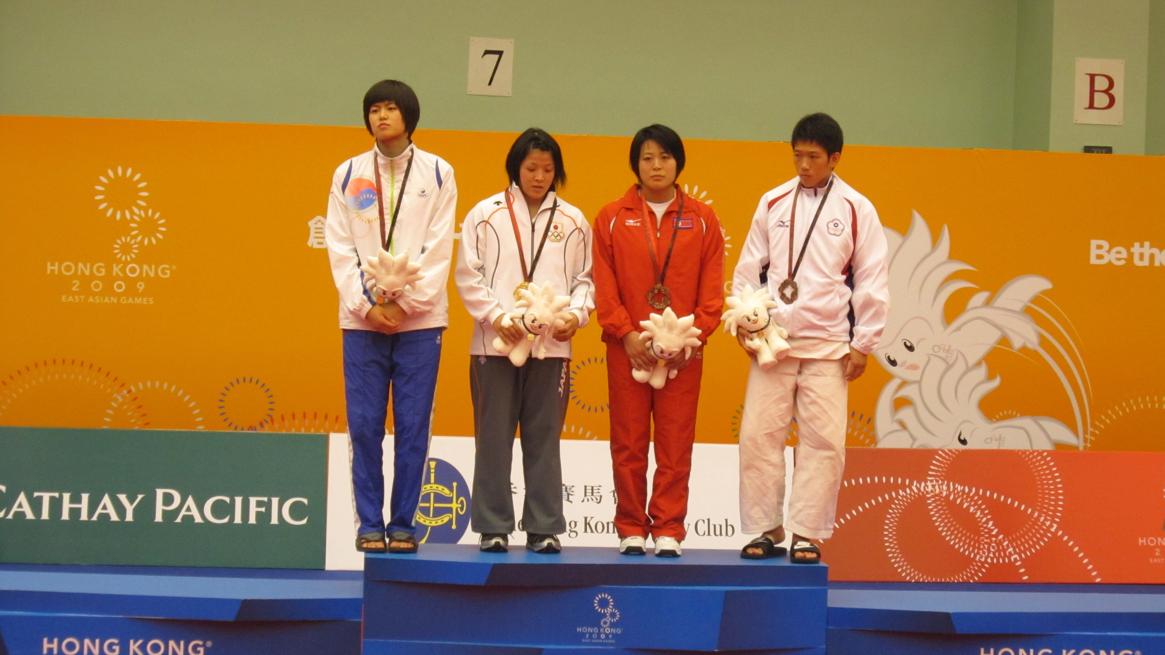 Hong Kong East Asian Games